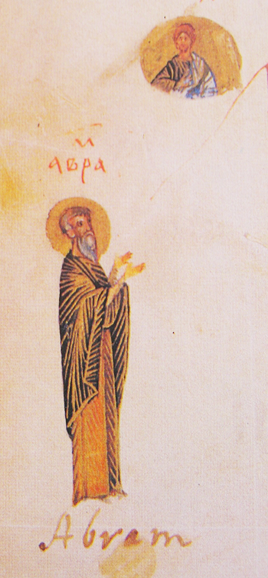 Kievan Psalter